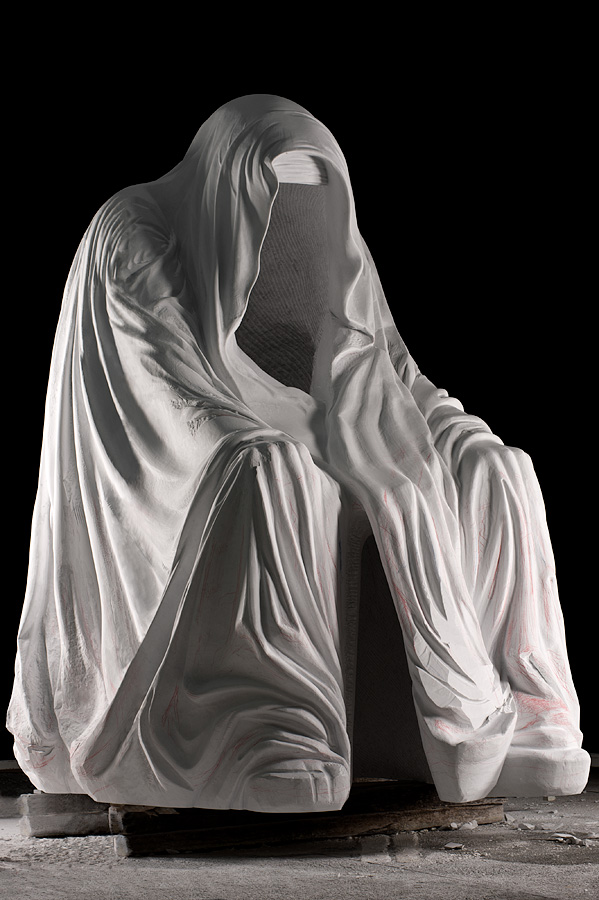 Visitors can walk inside and feel the energy of the pure white marble